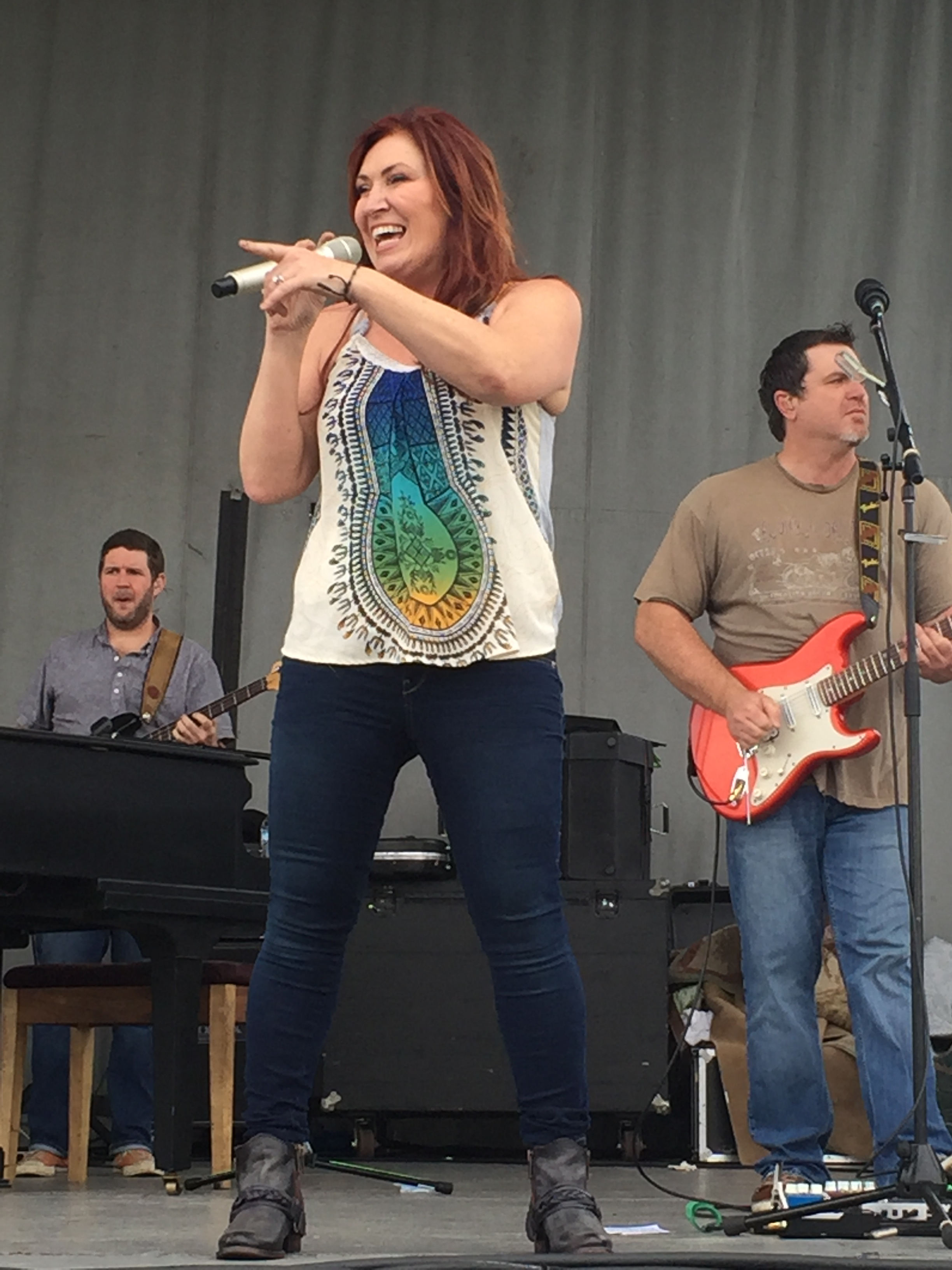 Jo Dee Messina performing at a festival in Tampa, Florida